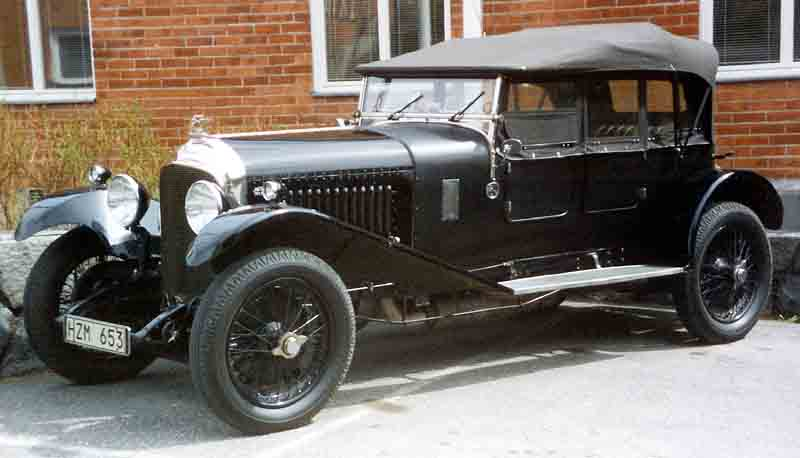 1929 Bentley 4½ Litre Sporting Four Seater.